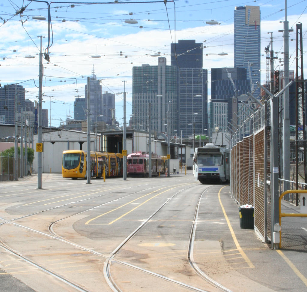 Southbank tram depot, Melbourne, Port Melbourne end looking towards city